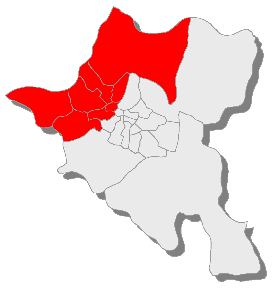 Map of 25 electoral region in Sofia.